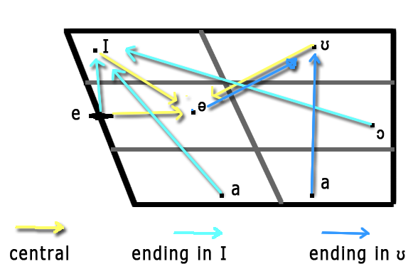 Chart presents glides from one vowel to another while producing diphthongs in British English